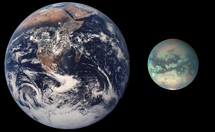 Titan Earth comparison at the same scale (about 29 km/px) as the other images from the series. An infrared false-colour image of the surface is superimposed on a visible-light image of the 200 km thick atmosphere.